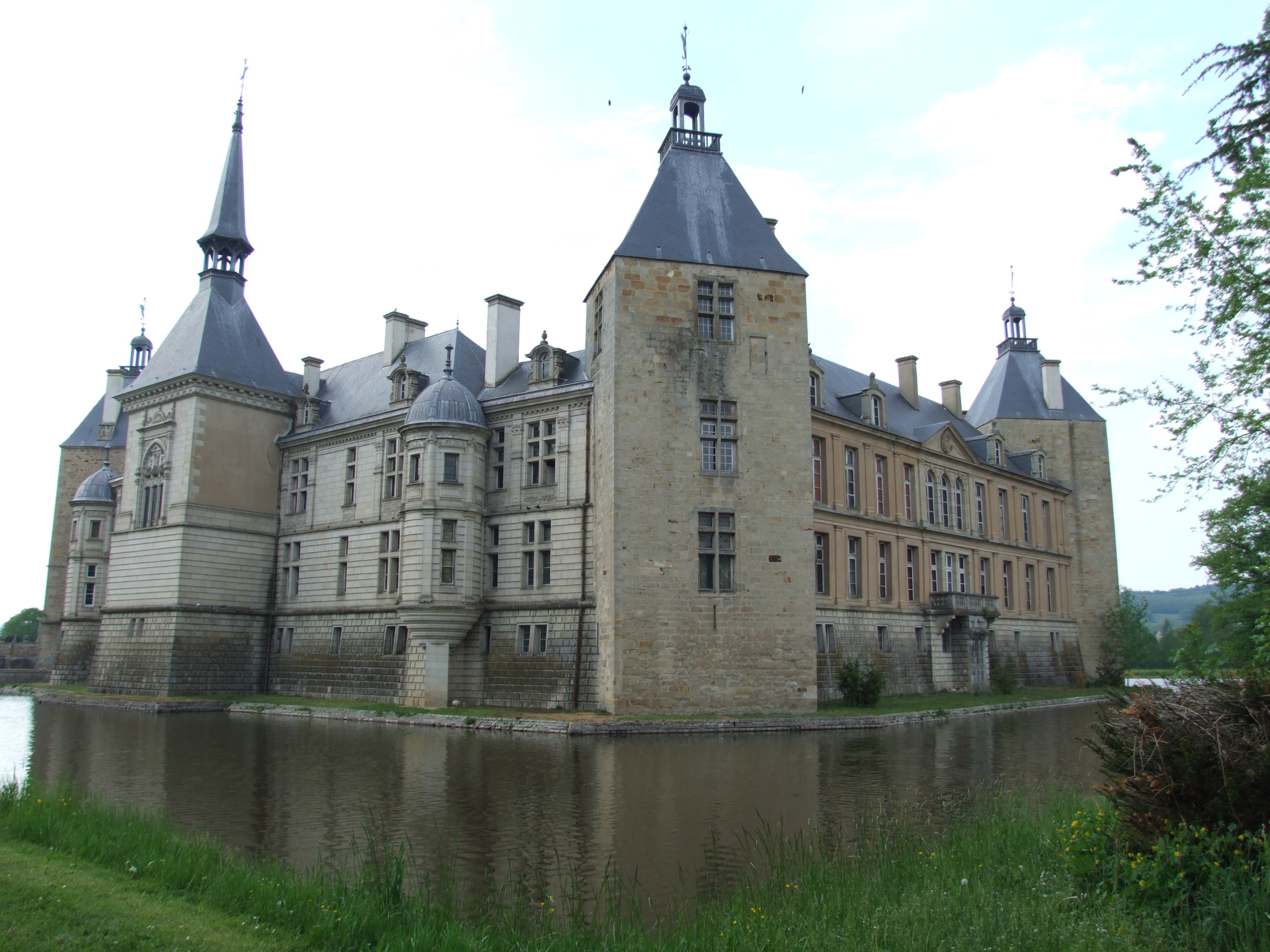 Sully Castle, Sully, Saone et Loire, Burgundy, FRANCE